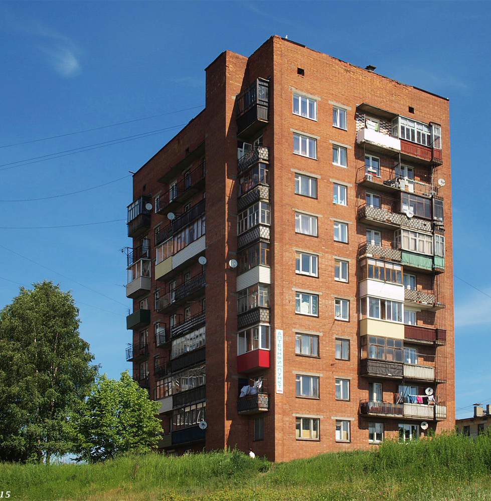 Nadyozhin house. Kondopoga